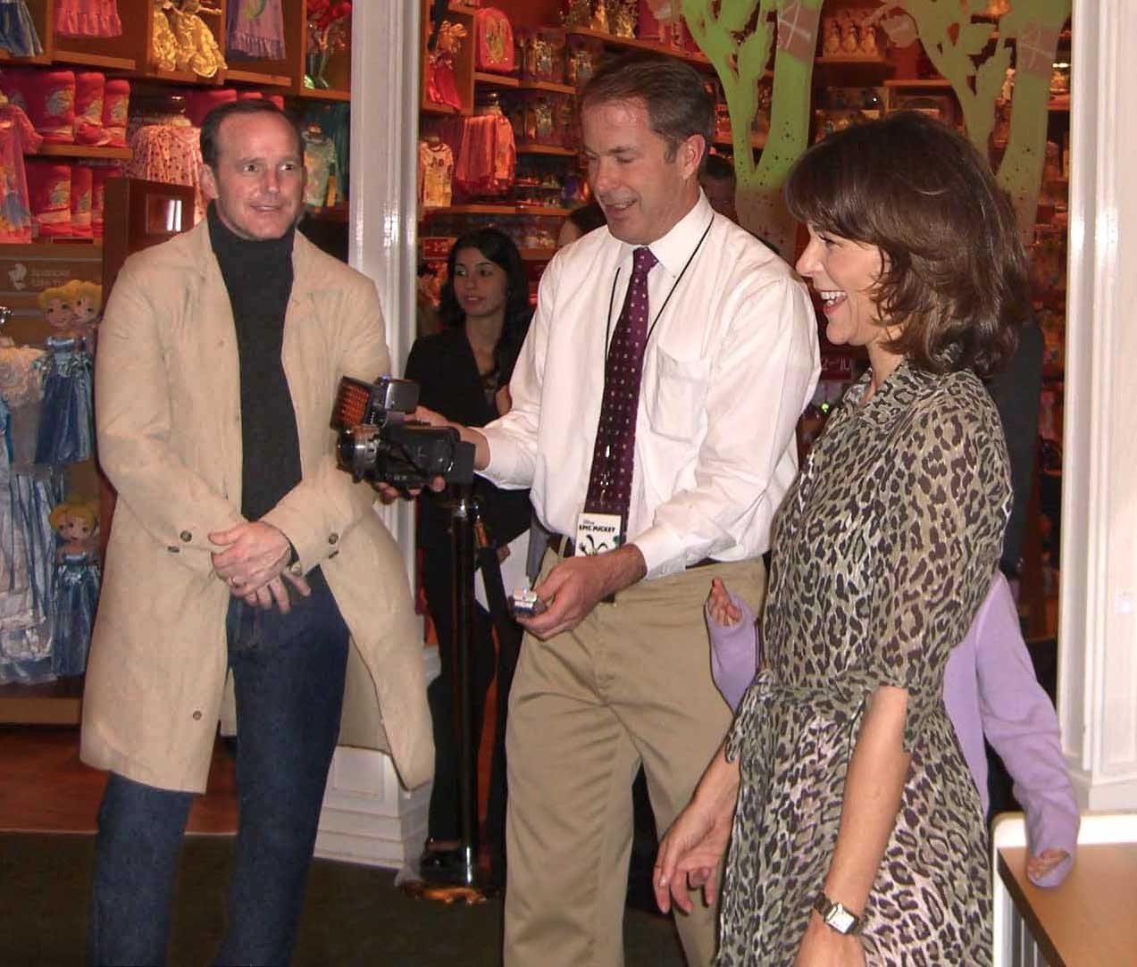 Actor Clark Gregg (left) and his wife, Dancing with the Stars personality Jennifer Grey (right), at the November 30, 2010 launch party for the Disney video game Epic Mickey at the Times Square Disney Store in Manhattan. Photographed by Luigi Novi. This photo is not in the public domain. It may, however, be used, modified and published for any purpose, only if an easily visible credit to the photographer is placed near the photo in each instance in which it is used. (See licensing information below.) Publication of this photo without this proper attribution constitutes copyright infringement. For more information on my photos, you can contact me here.